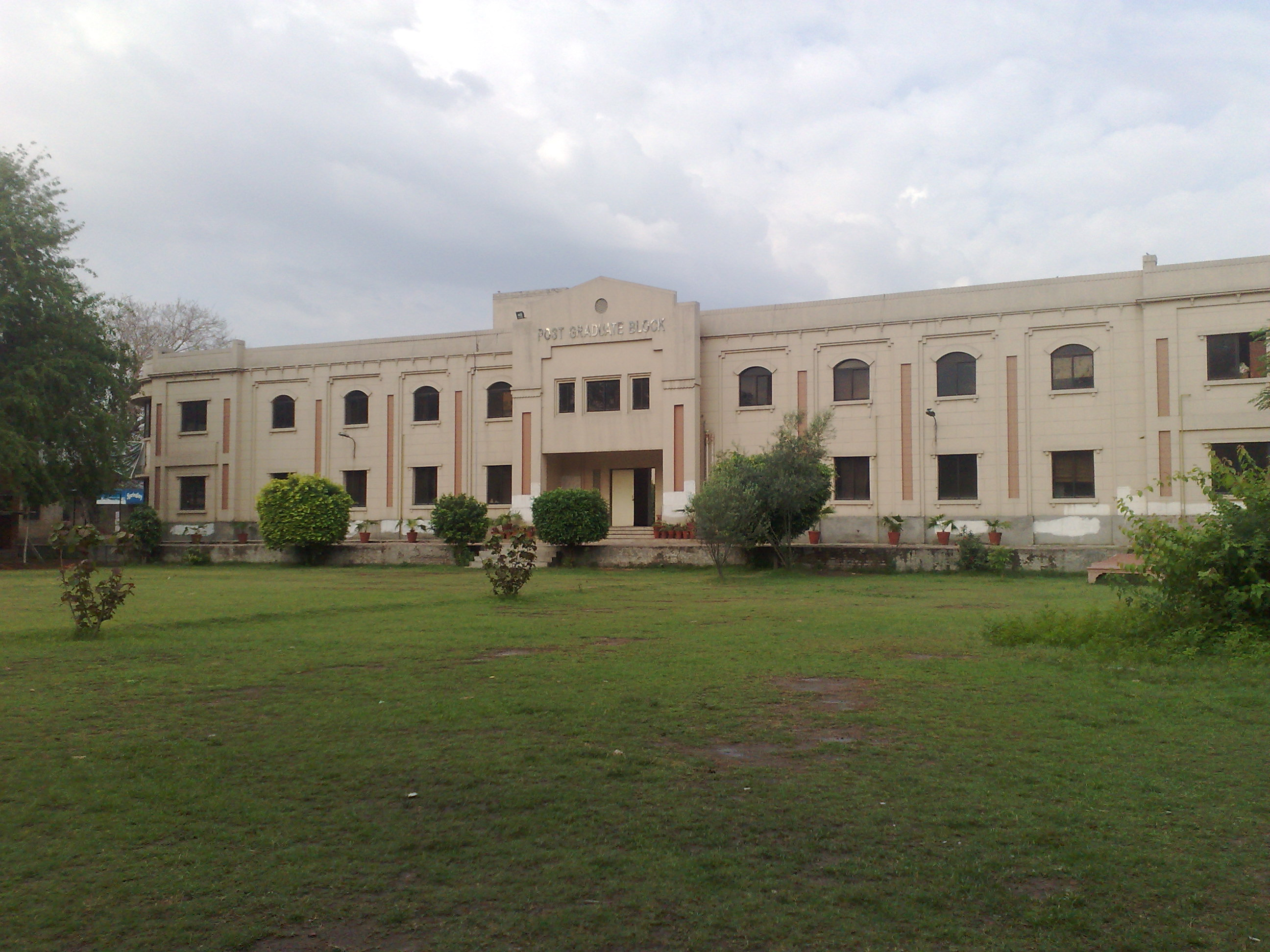 Outside View of Postgraduate Block - Govt. M.A.O College Lahore